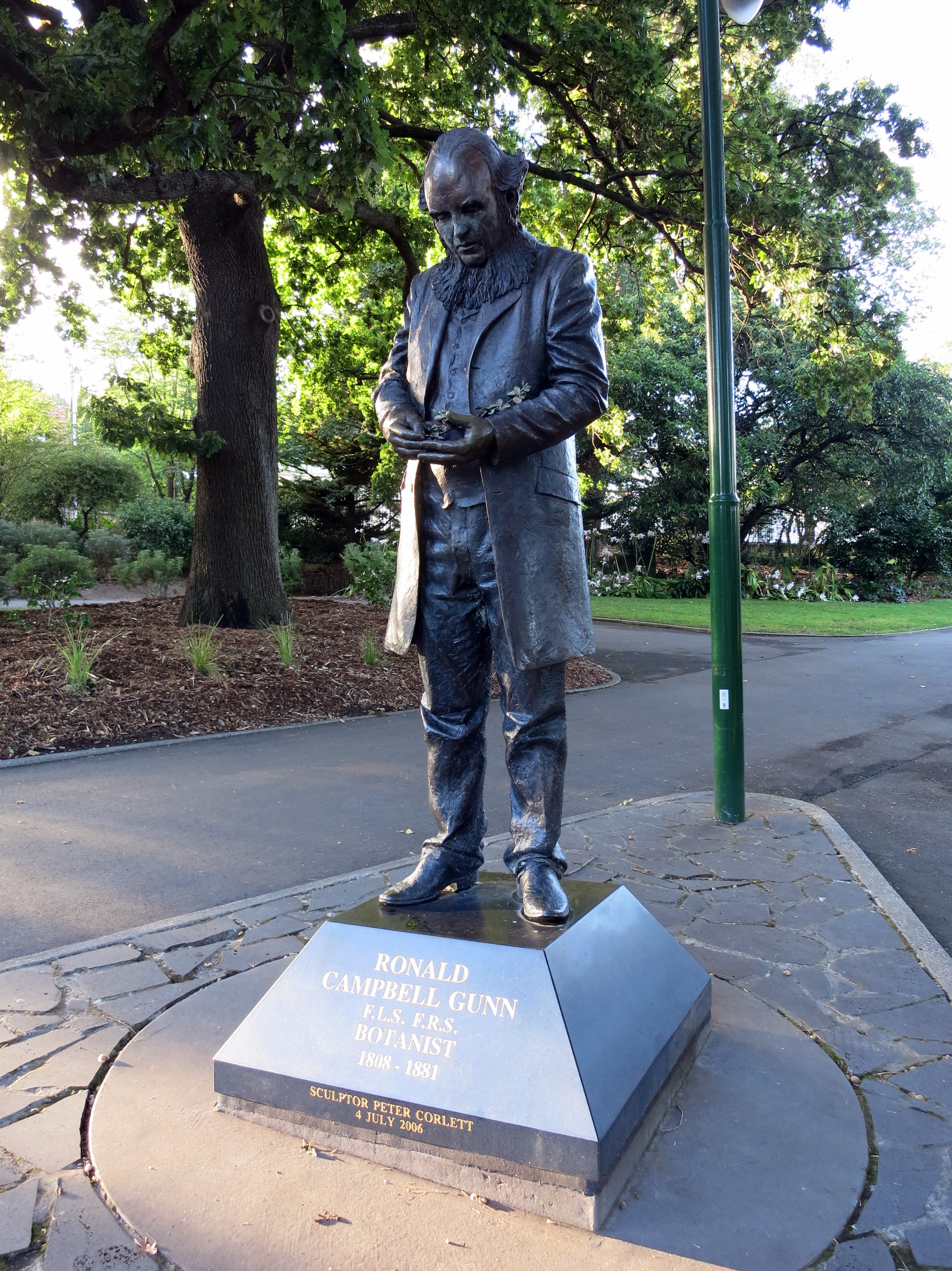 Sculpture of Ronald Campbell Gunn by Peter Corlett in City Park, Launceston